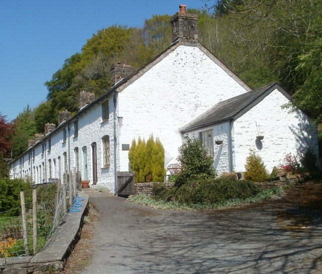 Set back from and above the main road (A4043) through Cwmavon. Forge Row was built c 1804-1806 for workmen at the nearby Varteg Forge. The original 12 houses were later converted to 6 houses. Each house is individually Grade II* listed.